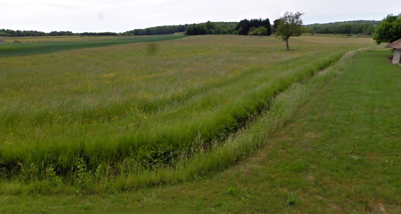 Watercourse Geissenweid in Diefmatten